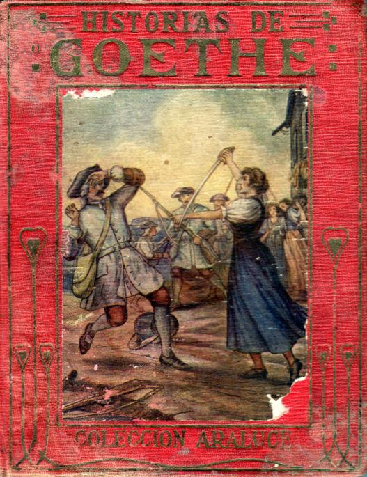 Top of the booklet Historias de Goethe (Stories of Goethe), a compilation of three stories of Johann Wolfgang von Goethe (Herman and Dorotea, Reineke the Cunning and Ballad of Count Exiled) published in Barcelona on October 21, 1914 by Araluce Editorial.